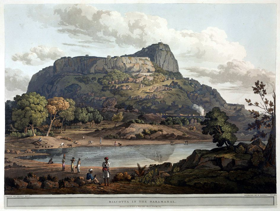 Artist: Salt, Henry (1780-1827) Medium: Aquatint, coloured Date: 1809 This aquatint was taken from plate 12 of Henry Salt's 'Twenty Four Views in St. Helena, the Cape, India, Ceylon, the Red Sea, Abyssinia and Egypt'. Salt visited Rayakottai in Tamil Nadu on his way to the Cauvery Falls. Viscount Valentia George Annesley wrote of its importance as a point of communication between Mysore and the Carnatic: "[Governor General] Lord Cornwallis ... had the fortifications strengthened. At present they consist of the hill, whose top is only approachable by a narrow flight of steps, and a fort at the bottom where are very comfortable houses for the officers. The scenery is wild and abrupt, consisting of rocky hills, with woods and jungle between ... the climate is so moderate, that every kind of fruit and vegetable may be reared in a degree of perfection that is unknown on the sultry plains around Madras."